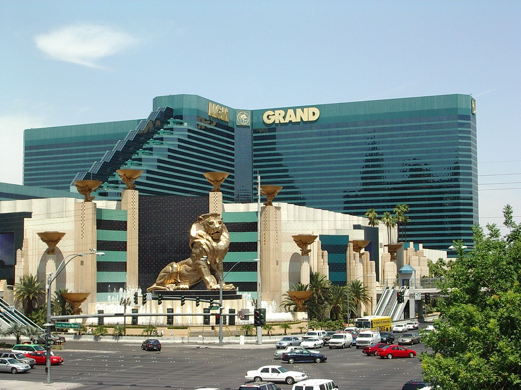 The MGM Grand hotel and Casino in Las Vegas